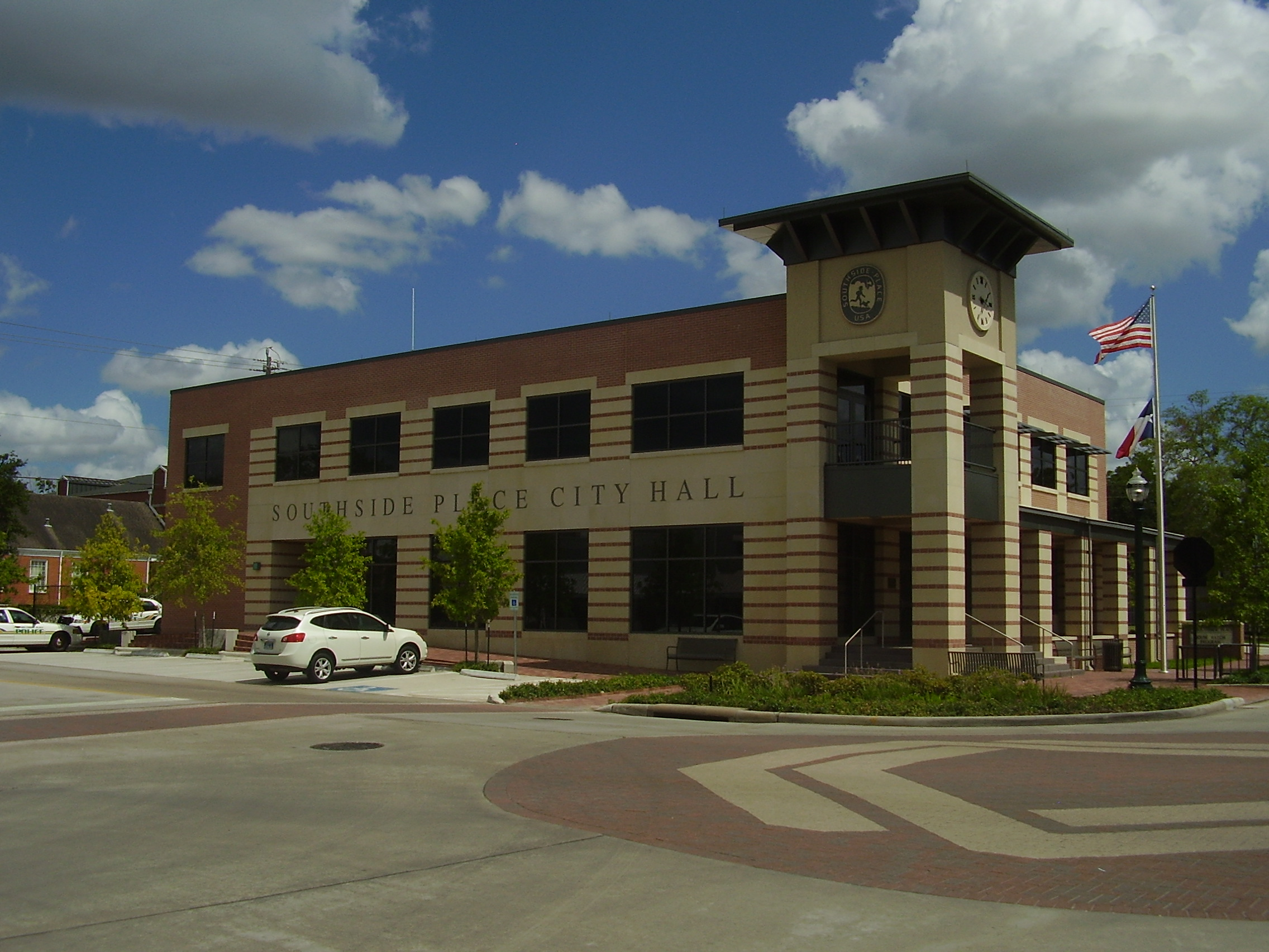 Southside Place City Hall